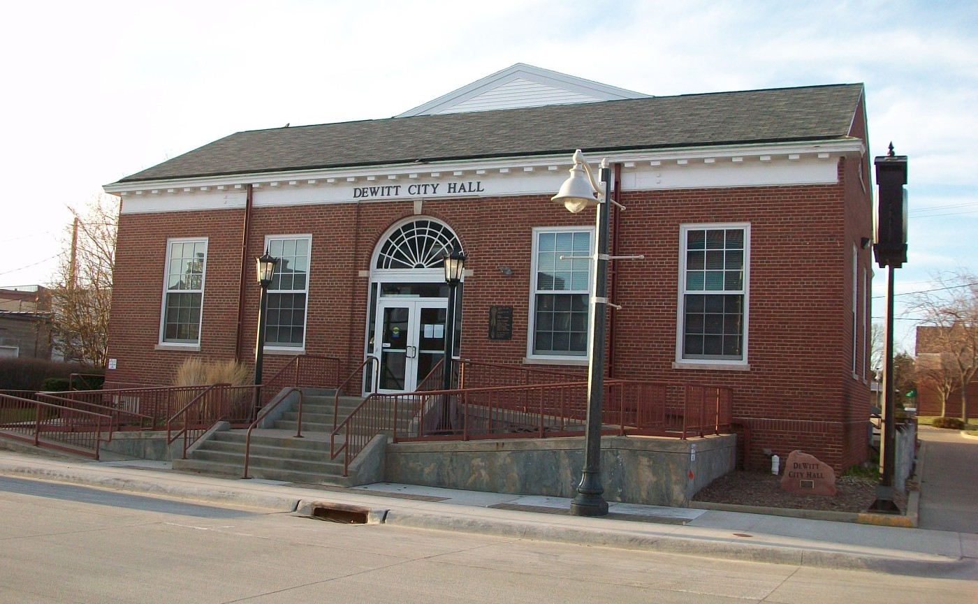 Front of City Hall in DeWitt, Iowa, United States, located at 510 Ninth Street.